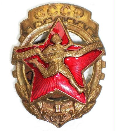 Ready for Labour and Defence of the USSR (Russian: «Готов к труду и обороне СССР» Gotov k trudu i oborone SSSR), abbreviated as GTO (Russian: ГТО)